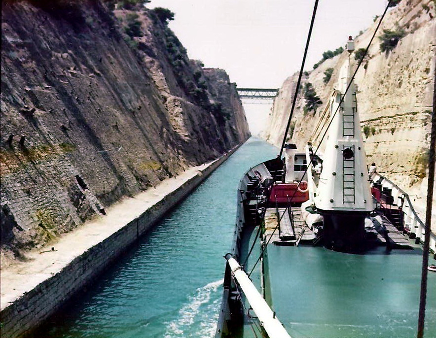 Israel Defense Forces